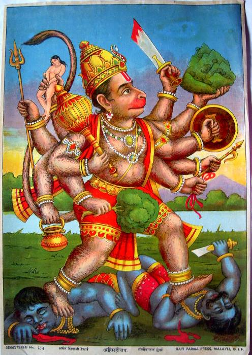 Hanuman kills Ahi and Mahi